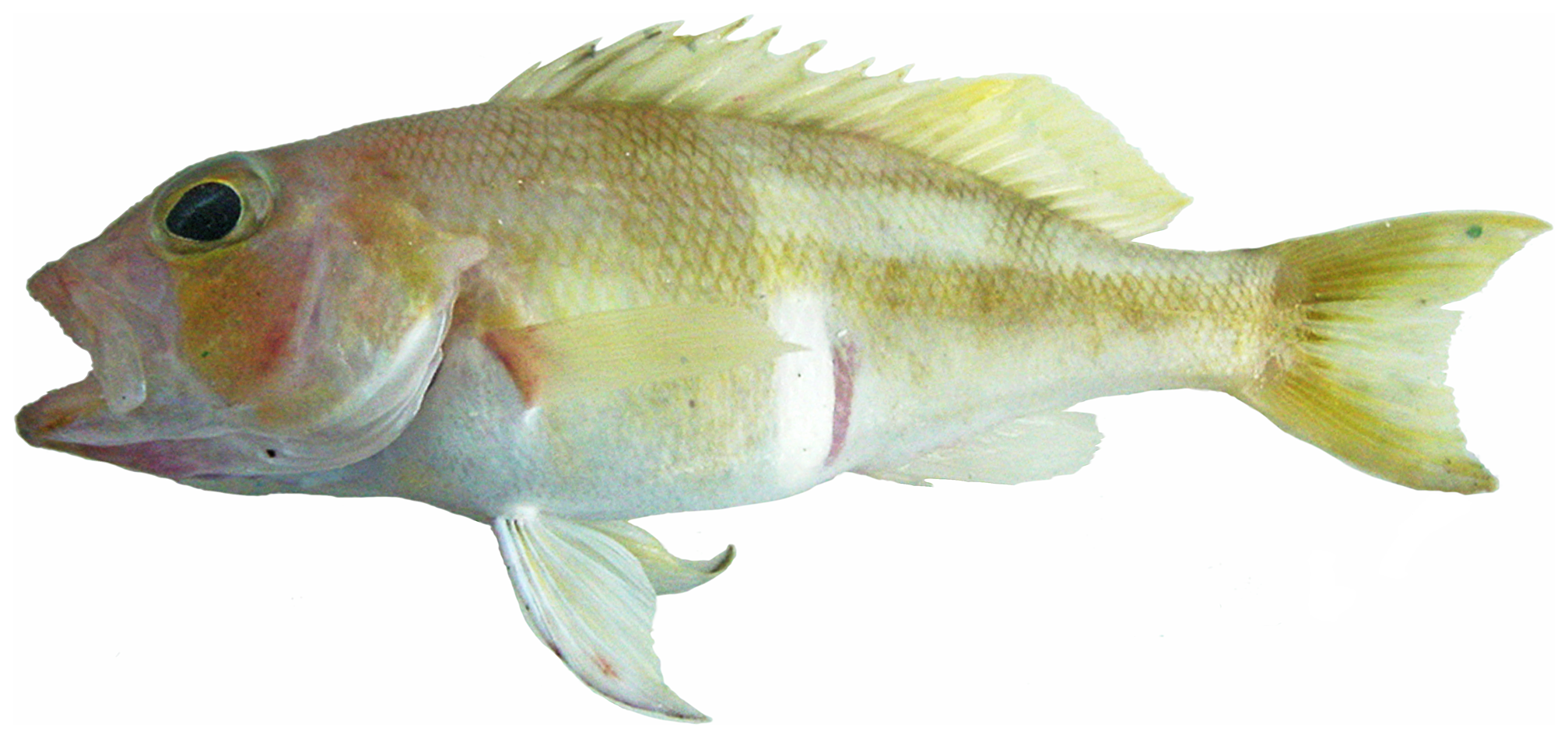 Serranus notospilus Longley, 1935—saddle bass, 150 mm SL. Photo by W Toller.